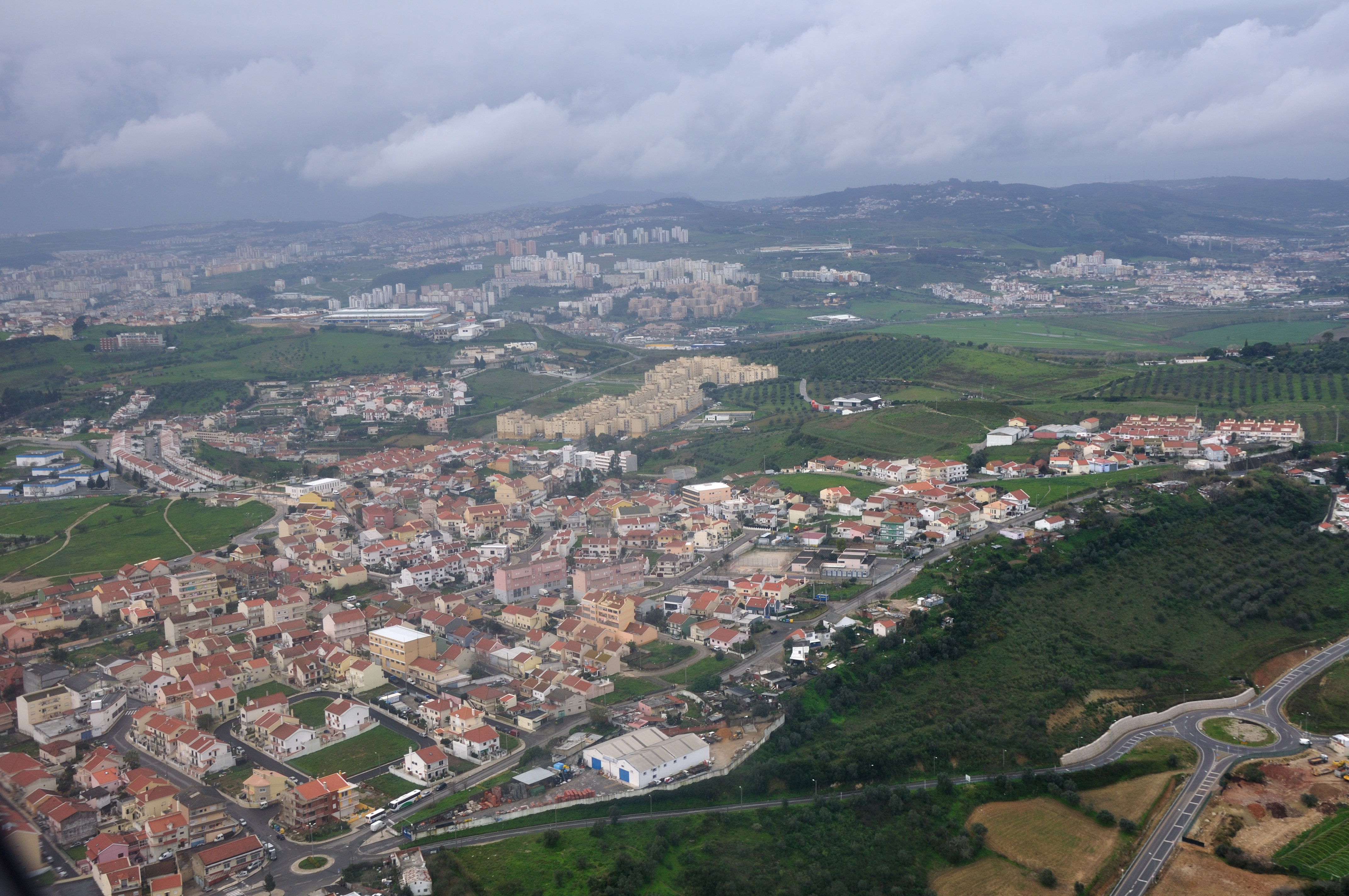 Portugal, Approach into Lisbon